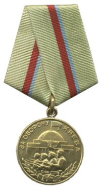 Soviet Kiev Defence Medal (Медал за оборону Киева - Medal za oboronu Kieva)